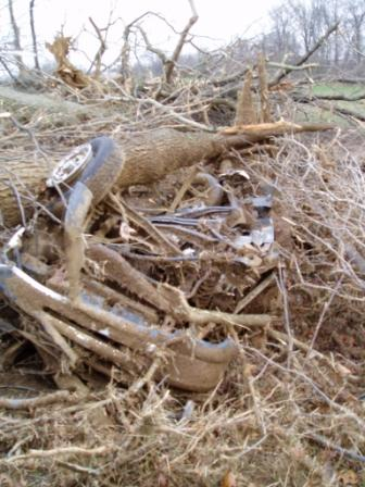 Photograph of a truck which was thrown about 1/4 of a mile by an EF3 tornado which struck Corydon, Kentucky on March 28, 2009